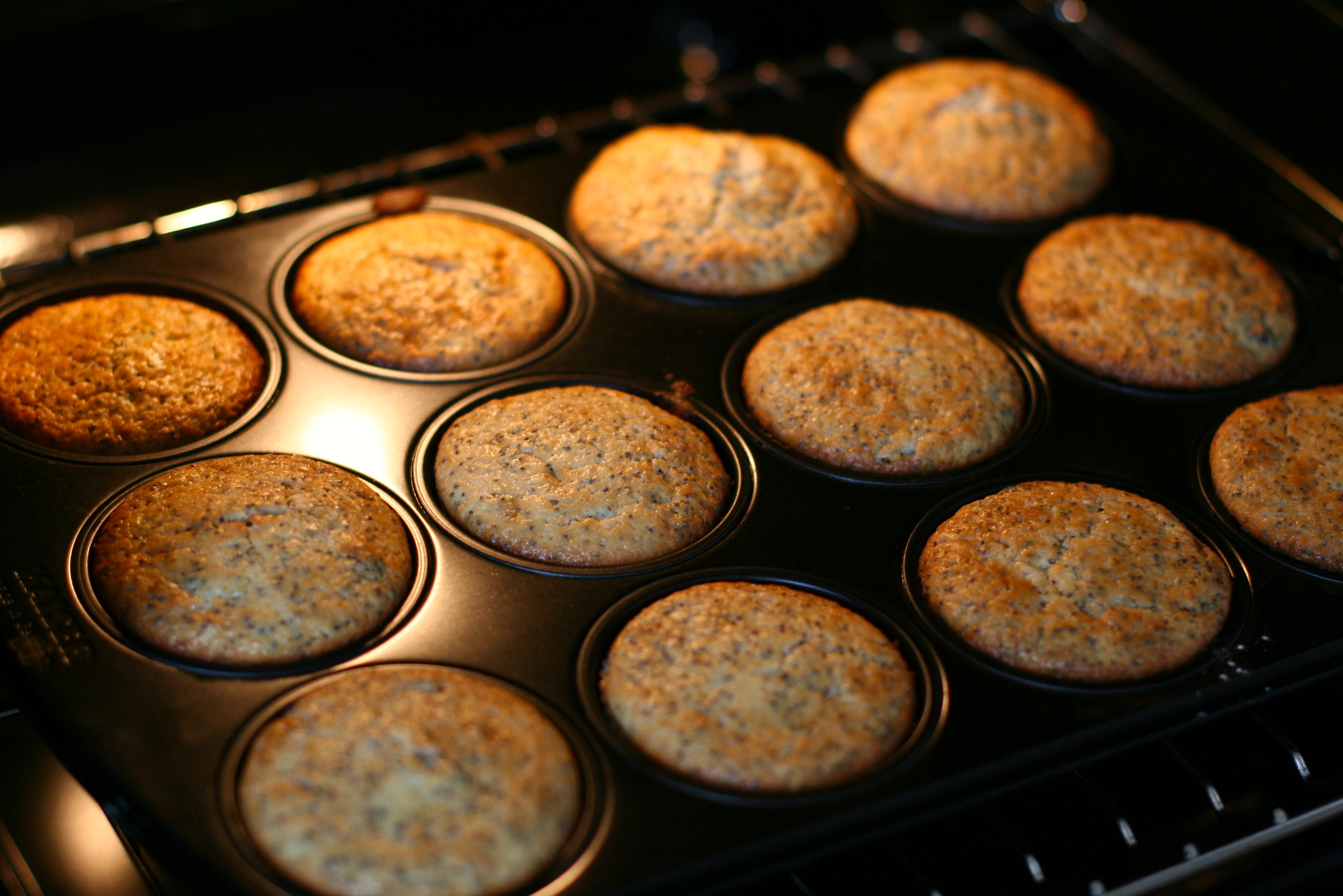 Cranberry-Mohn Muffins in baking tray.